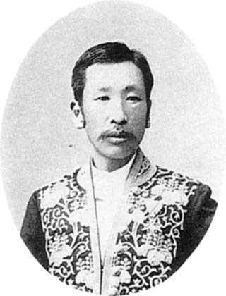 S. Miyoshi, Professor of Naval Archtecture.